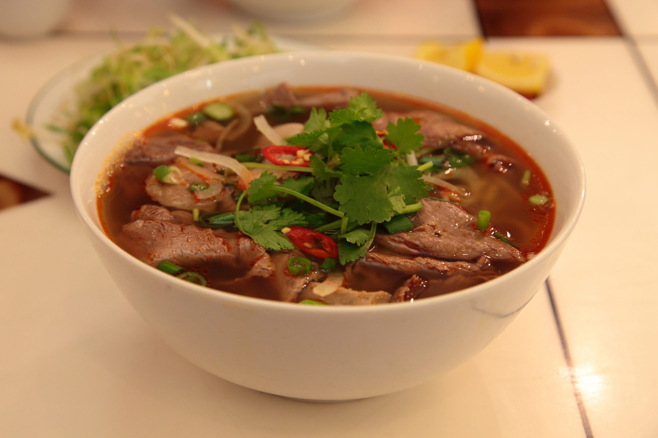 Vietnamese bun bo hue noodle soup from Huong Giang Vietnamese restaurant in Springvale, a suburb of Melbourne in Victoria, Australia.